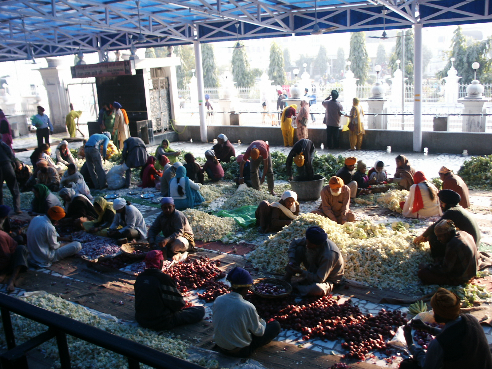 Amritsar, Punjab, India